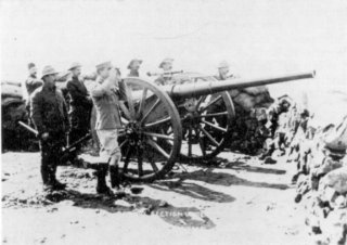 One of the "Elswick guns", a QF 12 pounder 12 cwt naval gun ("Long twelve") specially mounted on a field carriage for service in the Second Boer War.